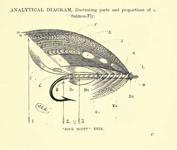 Analytical Diagram Showing Parts and Proportions of a Salmon Fly from The Salmon Fly by George Kelson, (London 1895)